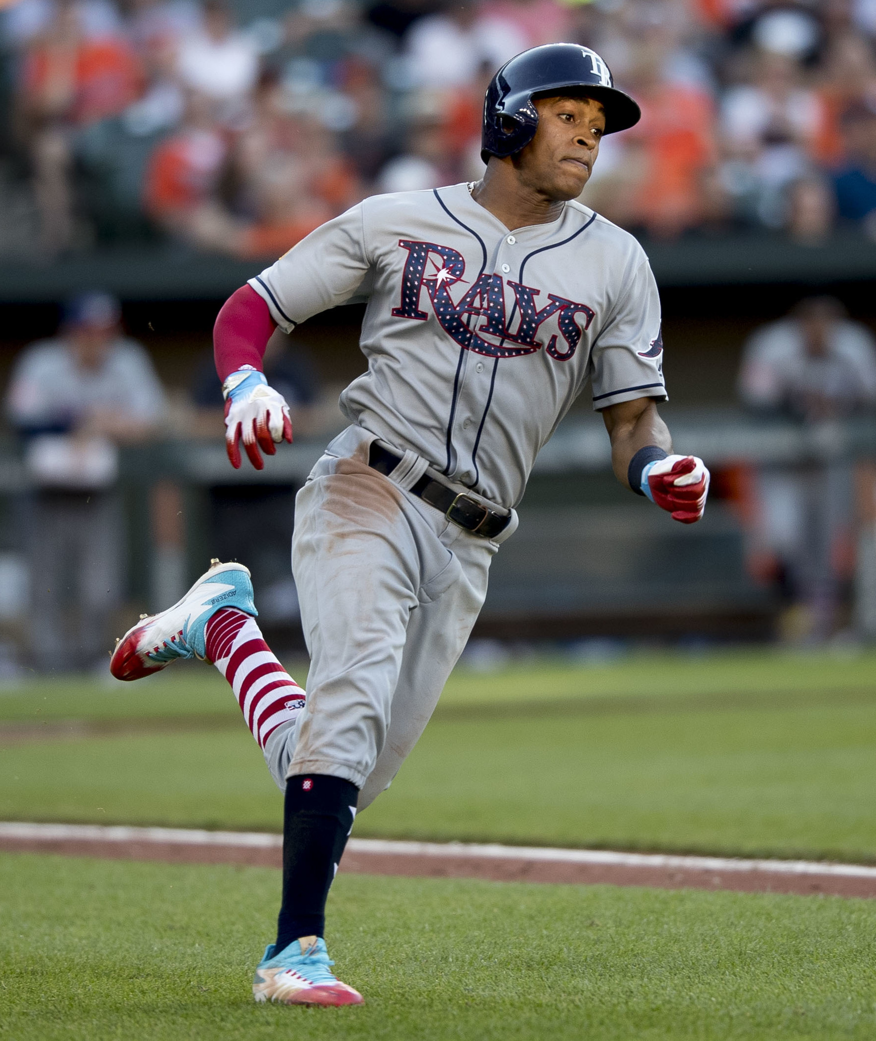 Rays at Orioles 7/1/17